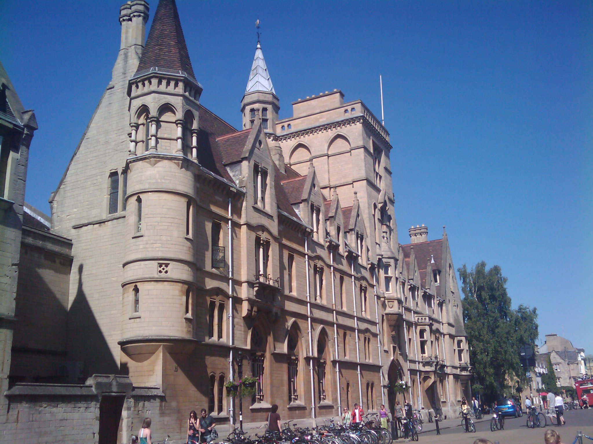 Oxford - Balliol College